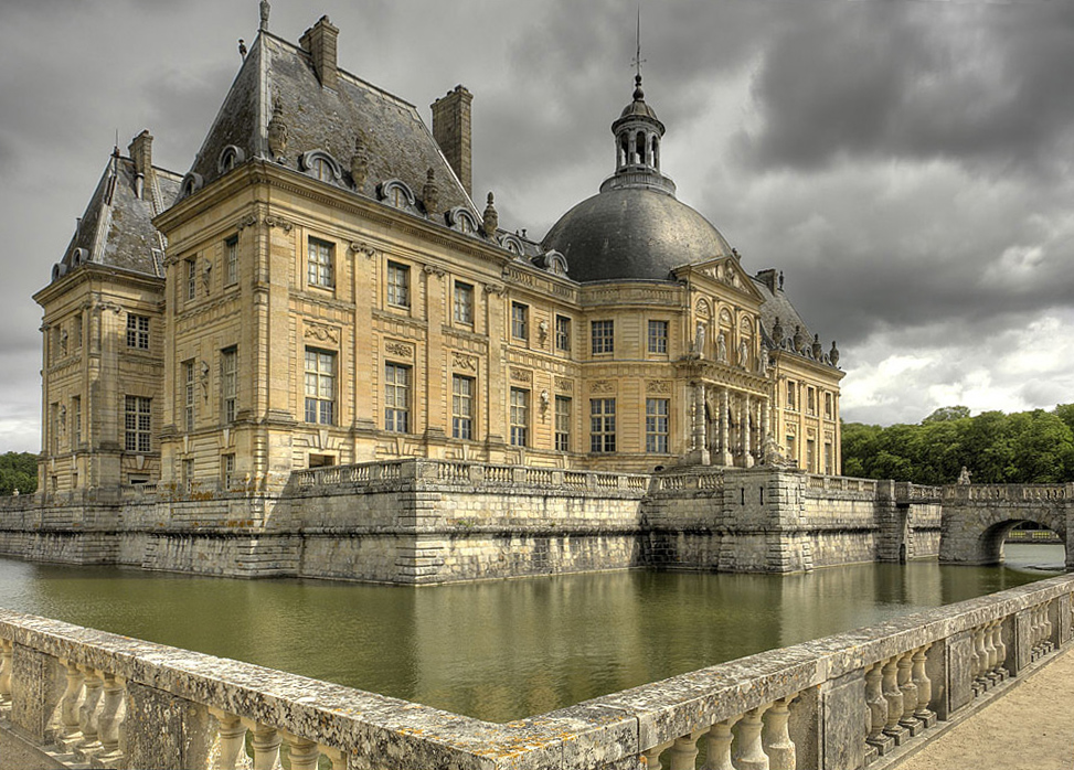 Vaux le vicomte castel, Maincy, France